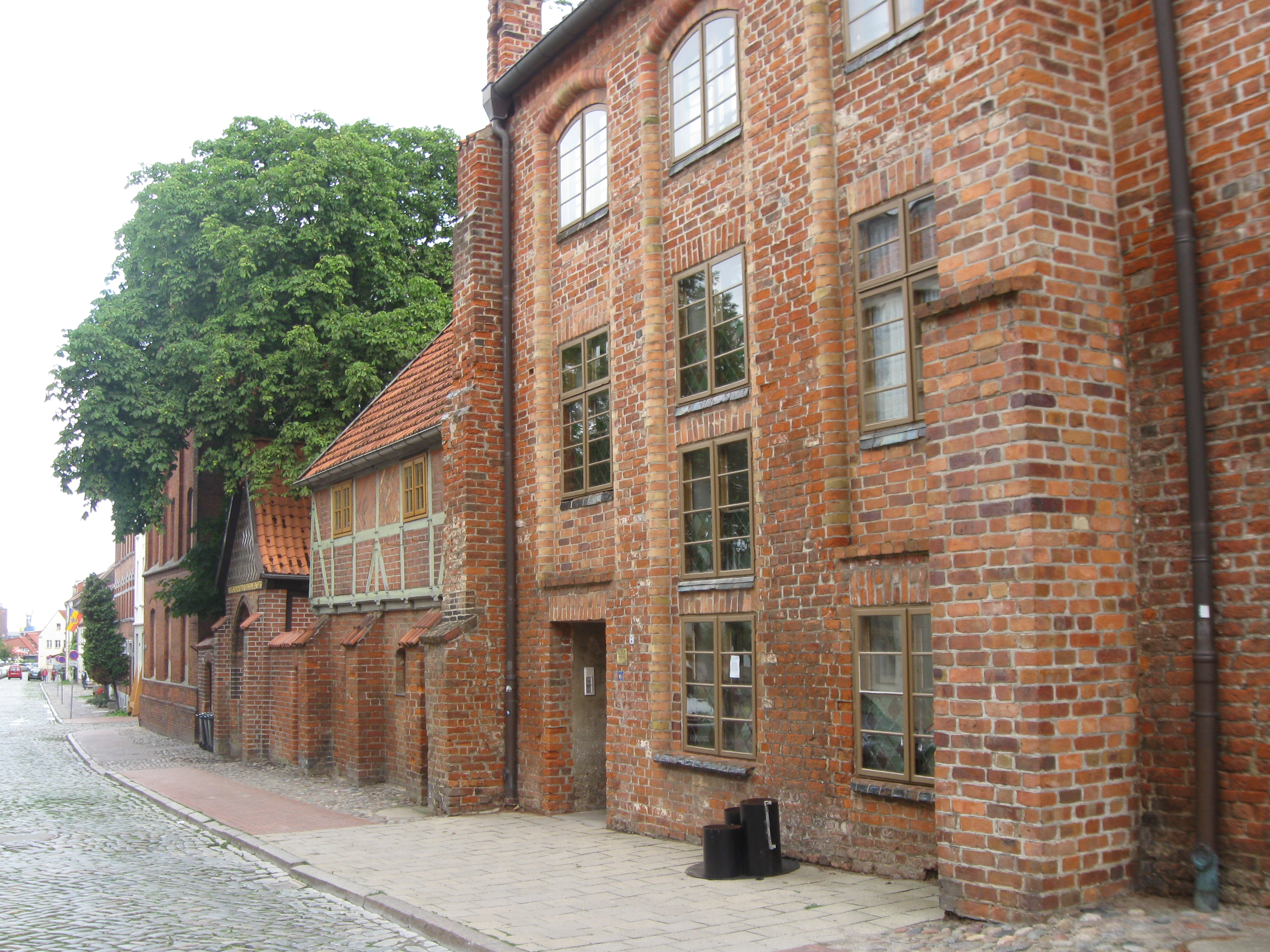 The frontside of the street "Neustadt" from the curch Heiligen-Geist-Kirche in Wismar